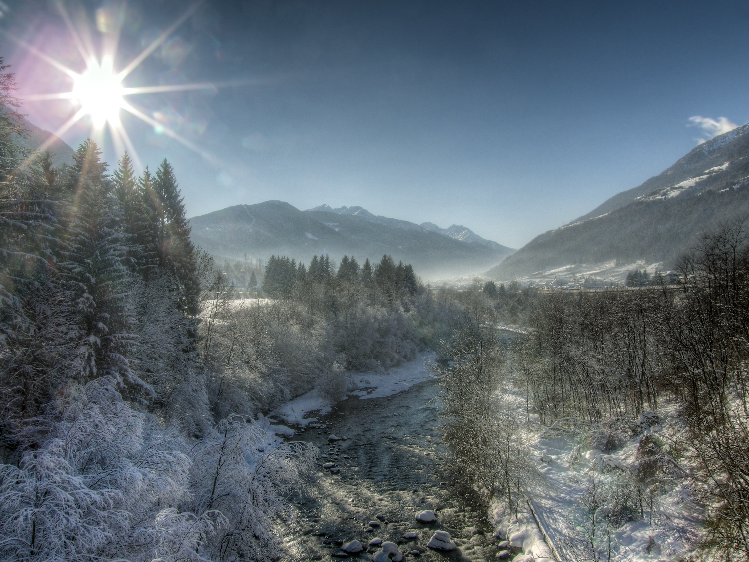 Noce River - Malè, Trento, Italy